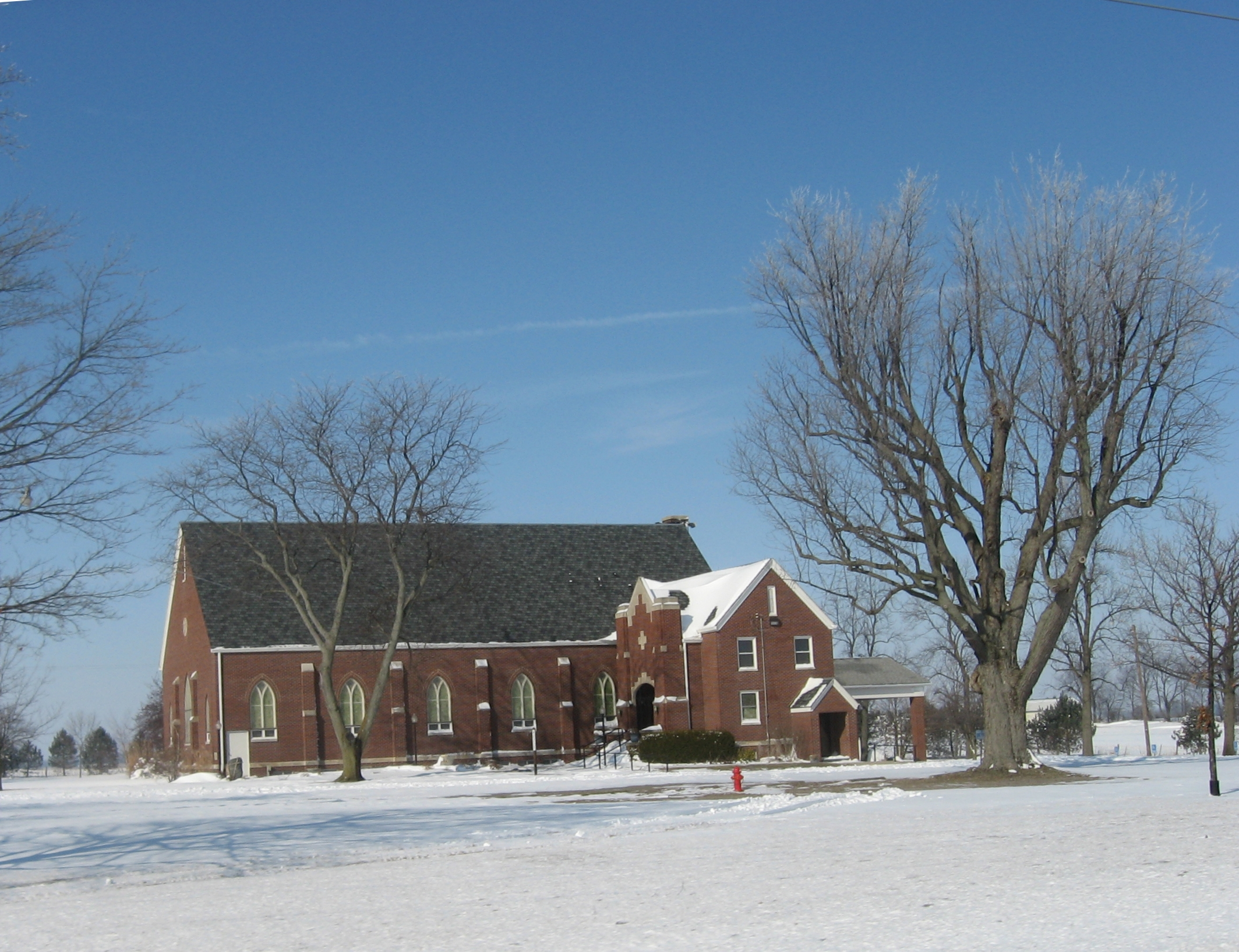 Front of South Union Mennonite Church, located along U.S. Route 68 at 56 State Route 508 just north of the village of West Liberty in Liberty Township, Logan County, Ohio, United States. The congregation was formed by a group of former Amish; its building was built in 1953. Church website